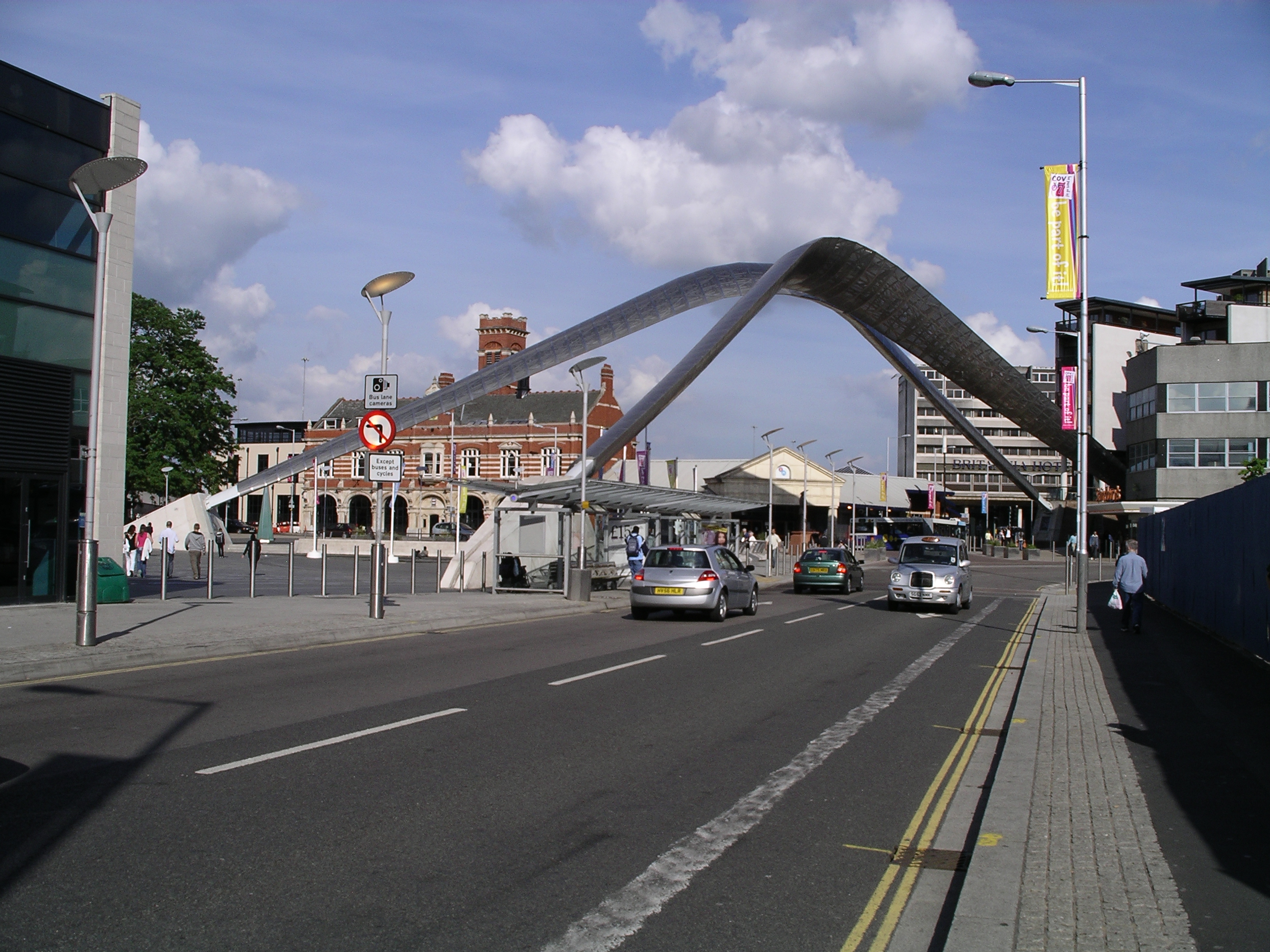 Photo of the Whittle Arches in Millenium Place, Coventry, England.